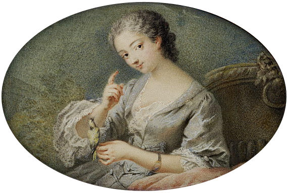 Portrait of Jeanne Agnès Berthelot de Pléneuf, marquise de Prie